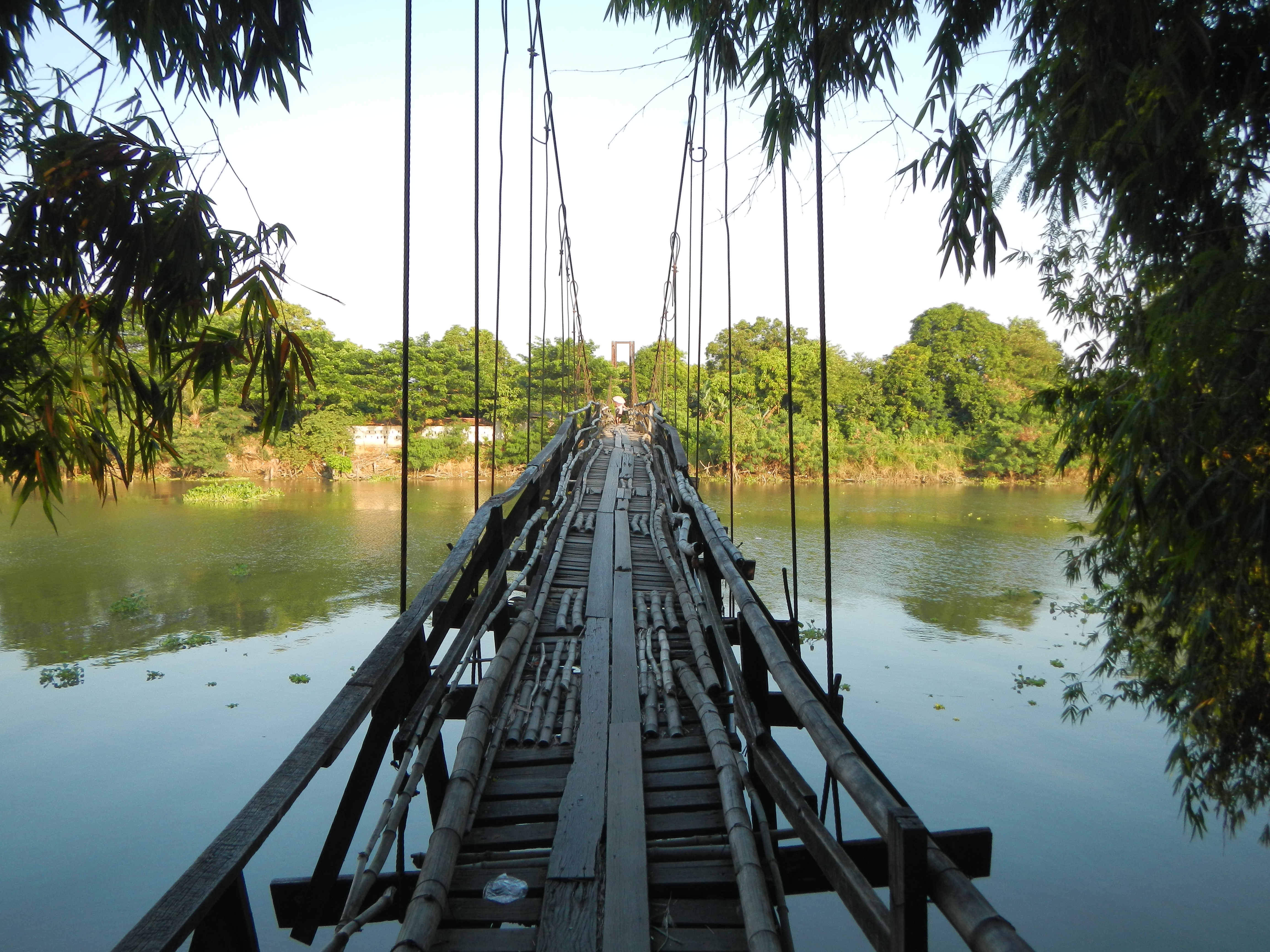 Hagonoy, Bulacan[1] Abulalas hanging brige